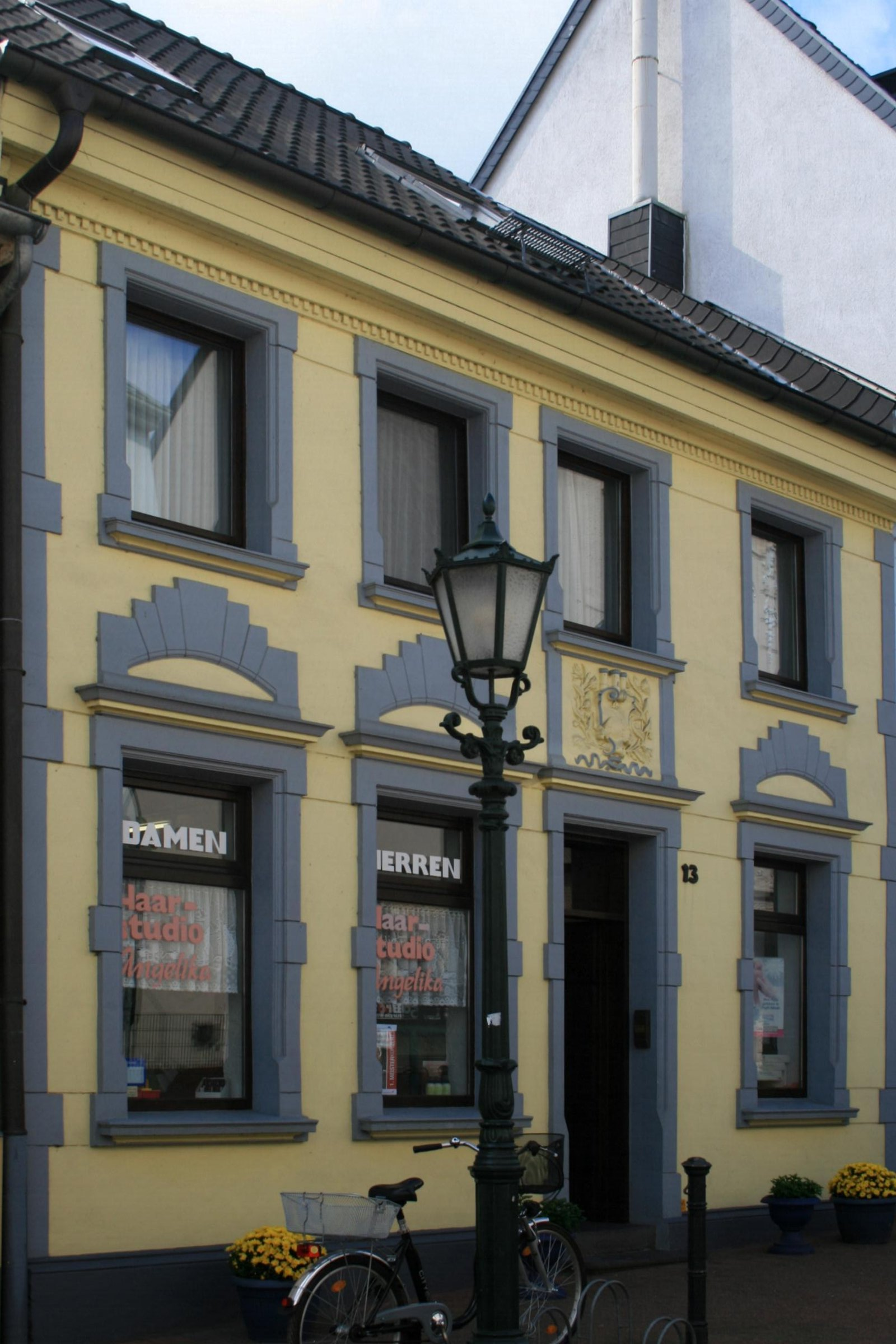 Cultural heritage monument No. Q 002 in Mönchengladbach